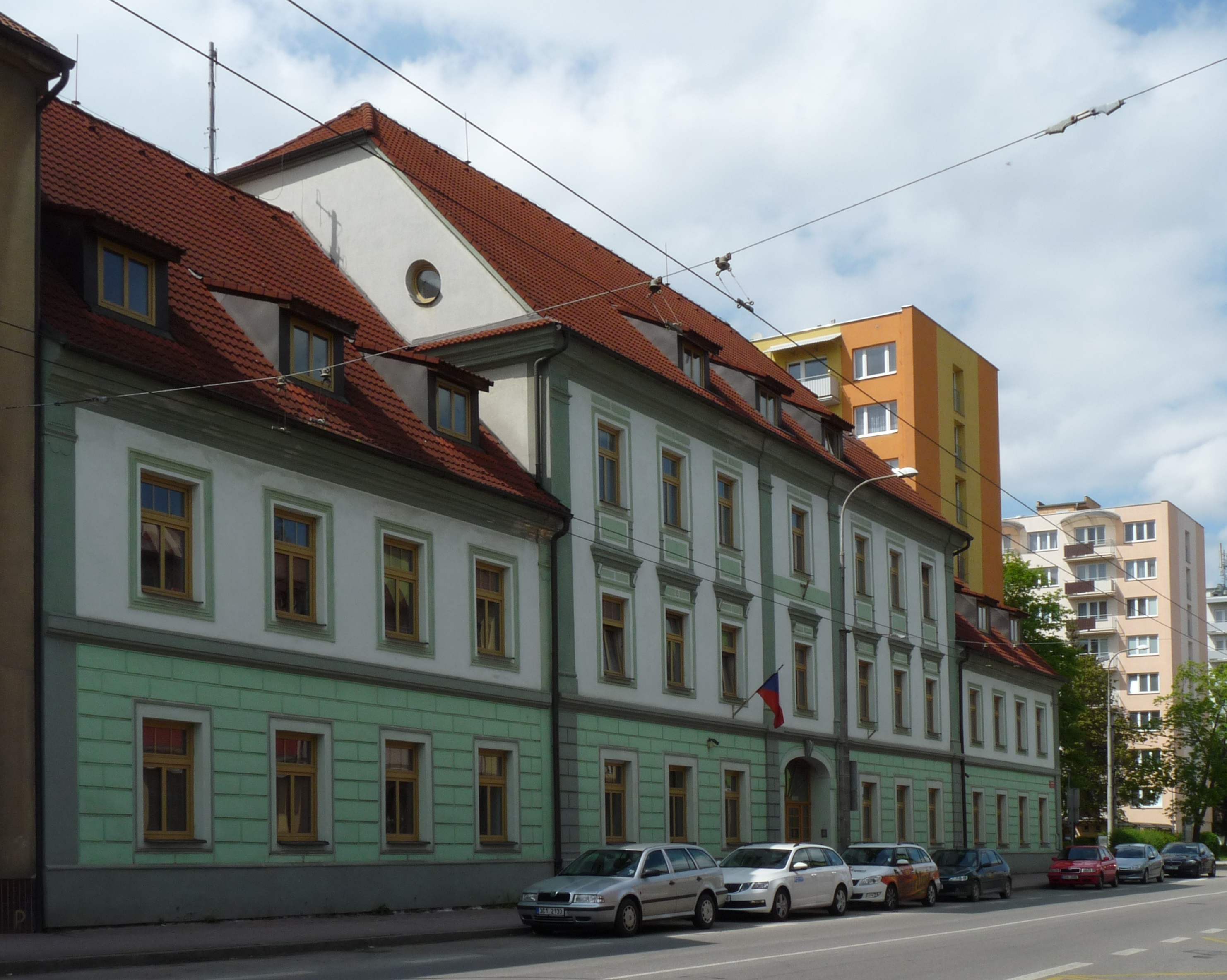 Building No 20 in Lidická Street, the District Courthouse, in the city of České Budějovice, South Bohemian Region, Czech Republic.